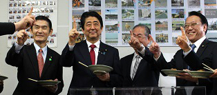 Shinzō Abe, Prime Minister, inspected the Machi Nami Marché with Masahiro Imamura, Minister for Reconstruction, and Hiroaki Nagasawa, Senior Vice-Minister for Reconstruction, in Namie Town, Futaba District, Fukushima Prefecture on April 8, 2017.